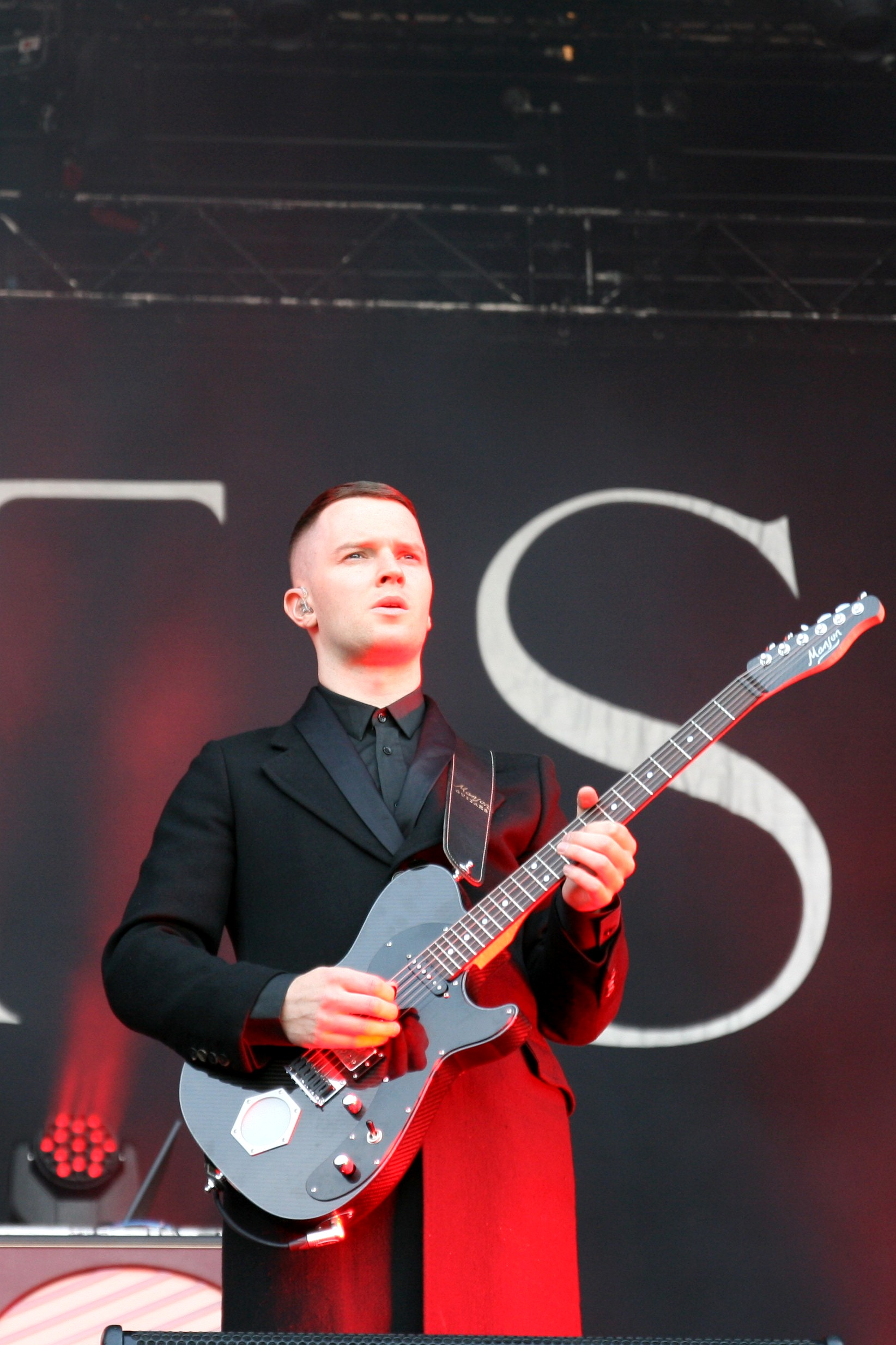 Adam Anderson, guitarist and synthesist of Hurts, stands on the Alterna Stage of Rock im Park-Festival 2013.